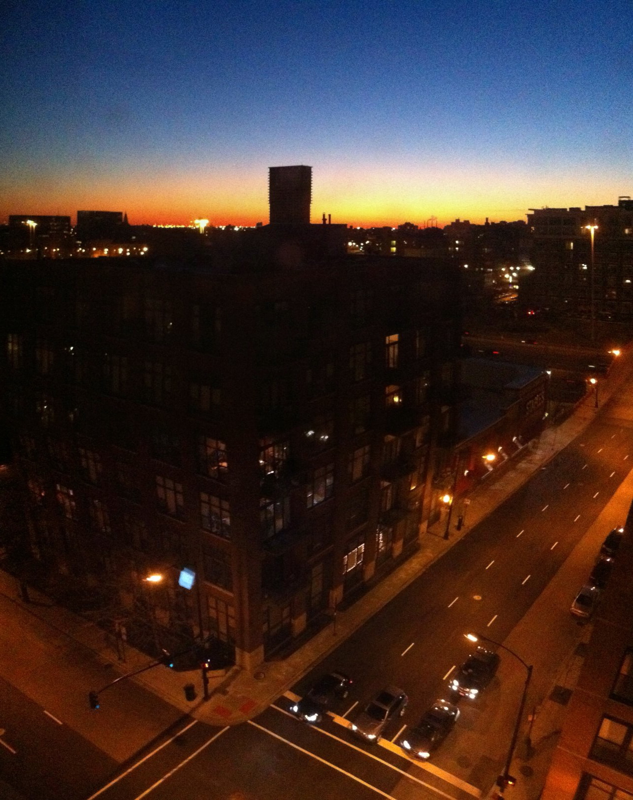 University Hall at dusk